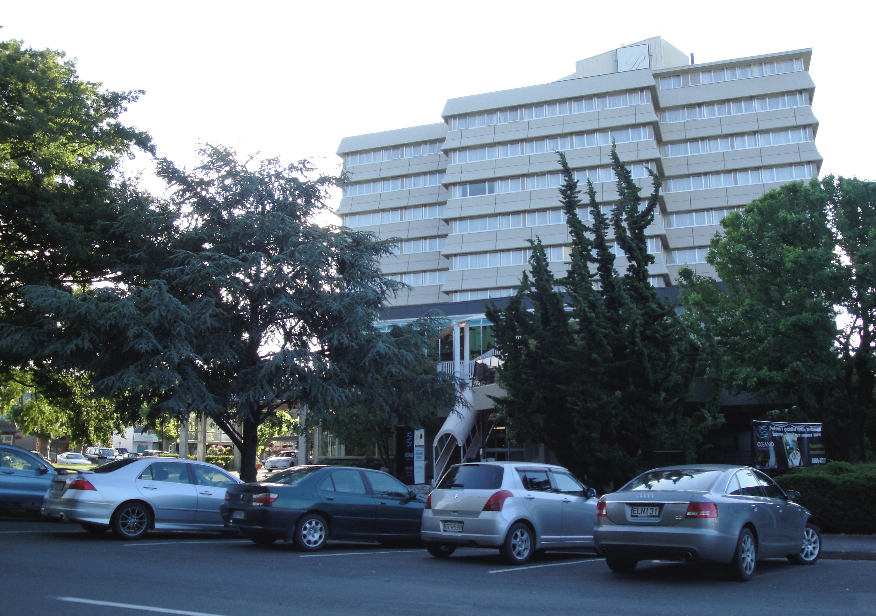 View of the Rutherford Hotel in Nelson.